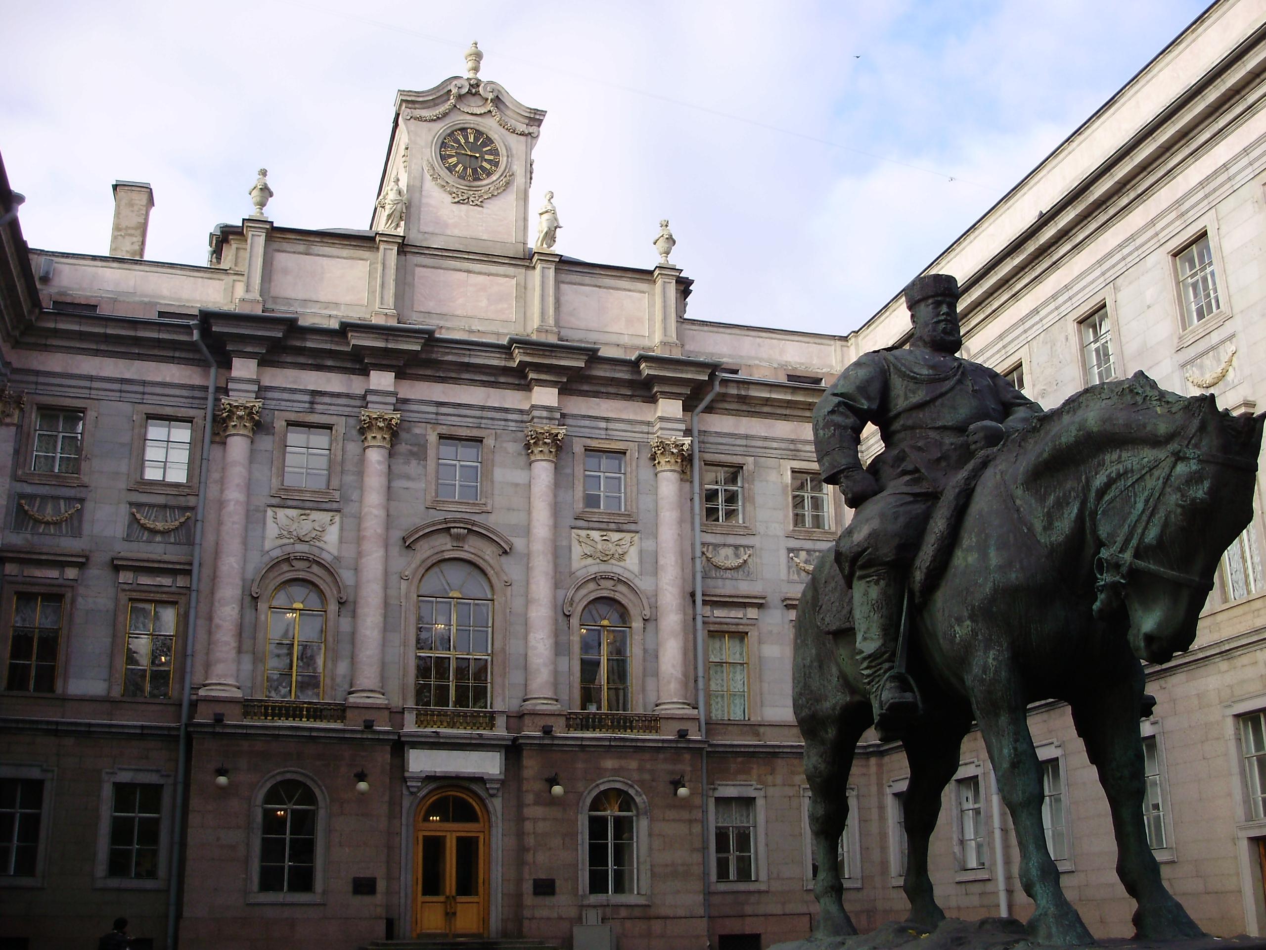 Monument to Alexander III of Russia on the background of the oriental frontage of Marble Palace in Saint-Petersburg.